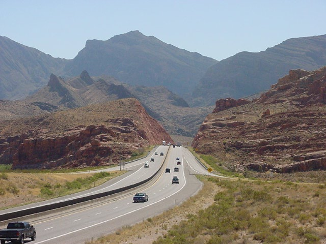 I-15 at the Cedar Pocket TI, looking SW from the overpass - picture taken 30 Aug 2001 14:50 MST